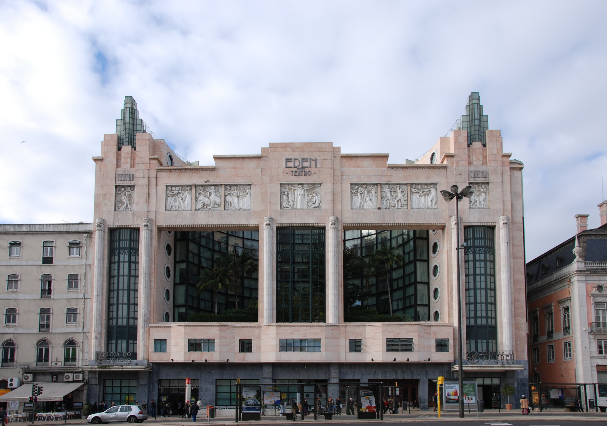 Art Decó facade of former Teatro Eden, now Aparthotel Vip Eden in Lisbon